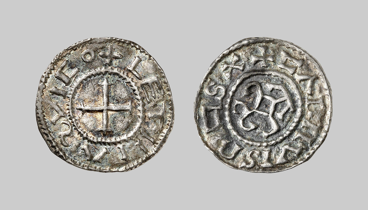 337/5000 Denier of Charles the Bald (843-877), probably a immobilization of the 10-11 century (Silver, 1.63 gr, 20 mm). The legend on the obverse LETINAS VICO, refers to the Village of Estinnes. This coin could be an immobilization of the original money issued during the reign of Charles the Bald, probably a century or two after his death.